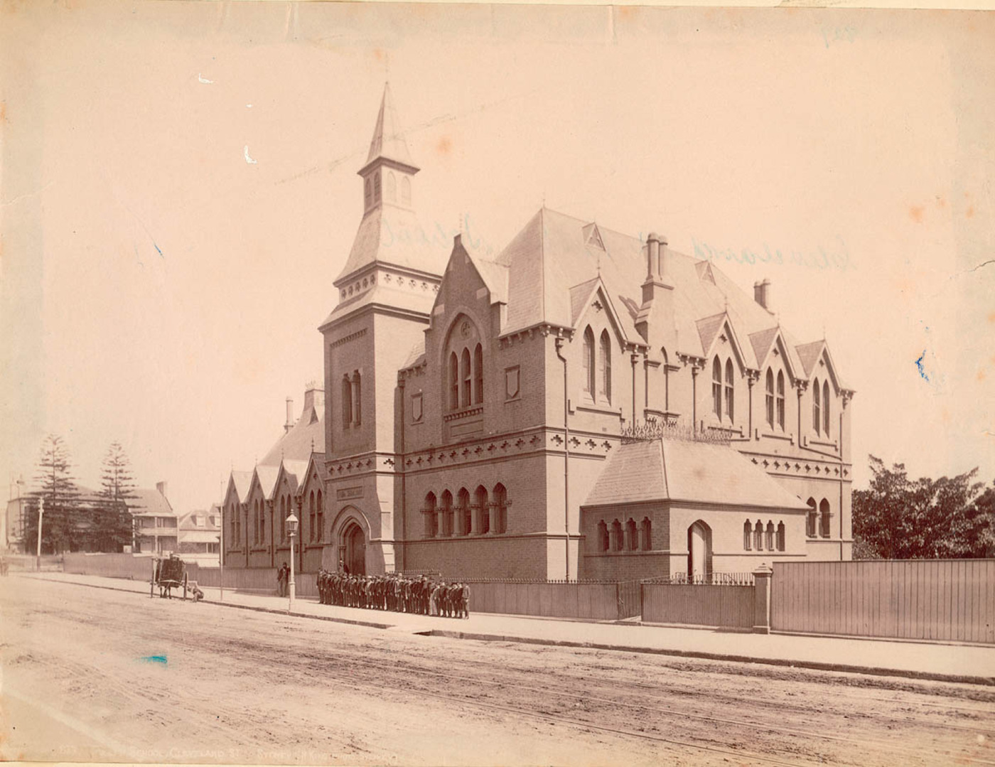 External picture of Cleveland Street Public School, ca. 1880-1890.